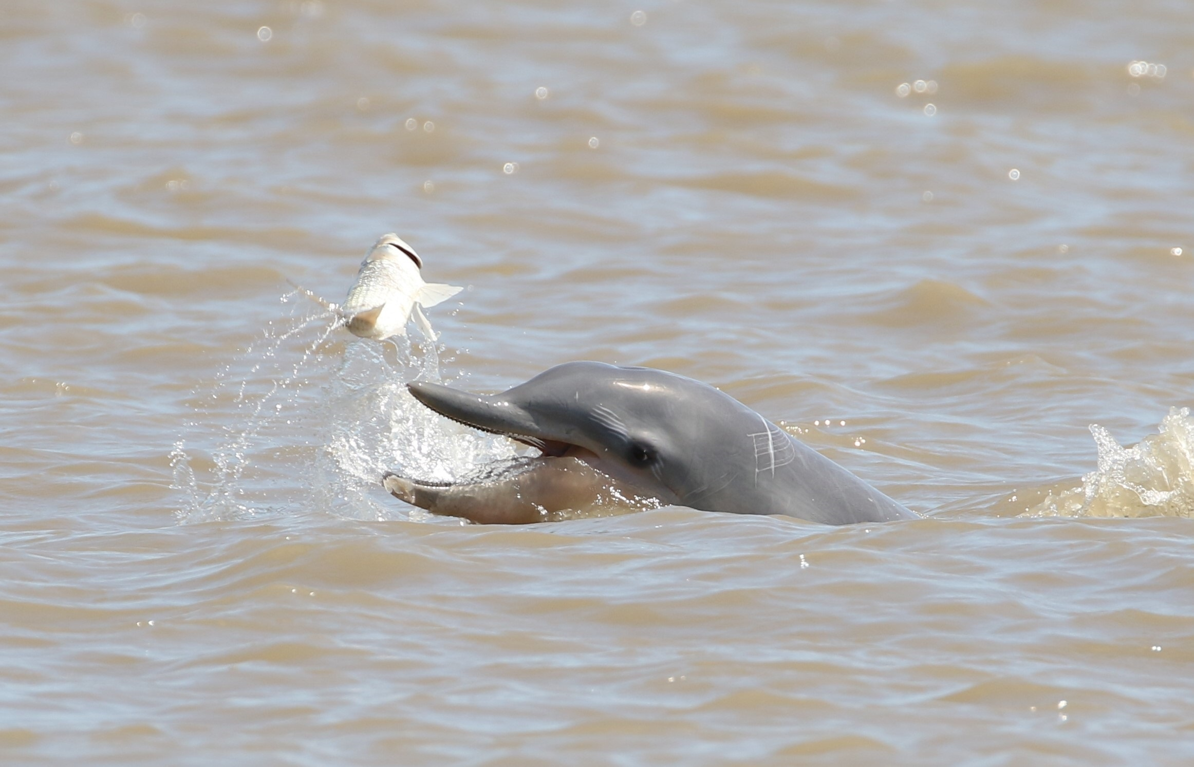 Sotalia guianensis feeding in Mahury Chanel (French Guiana)